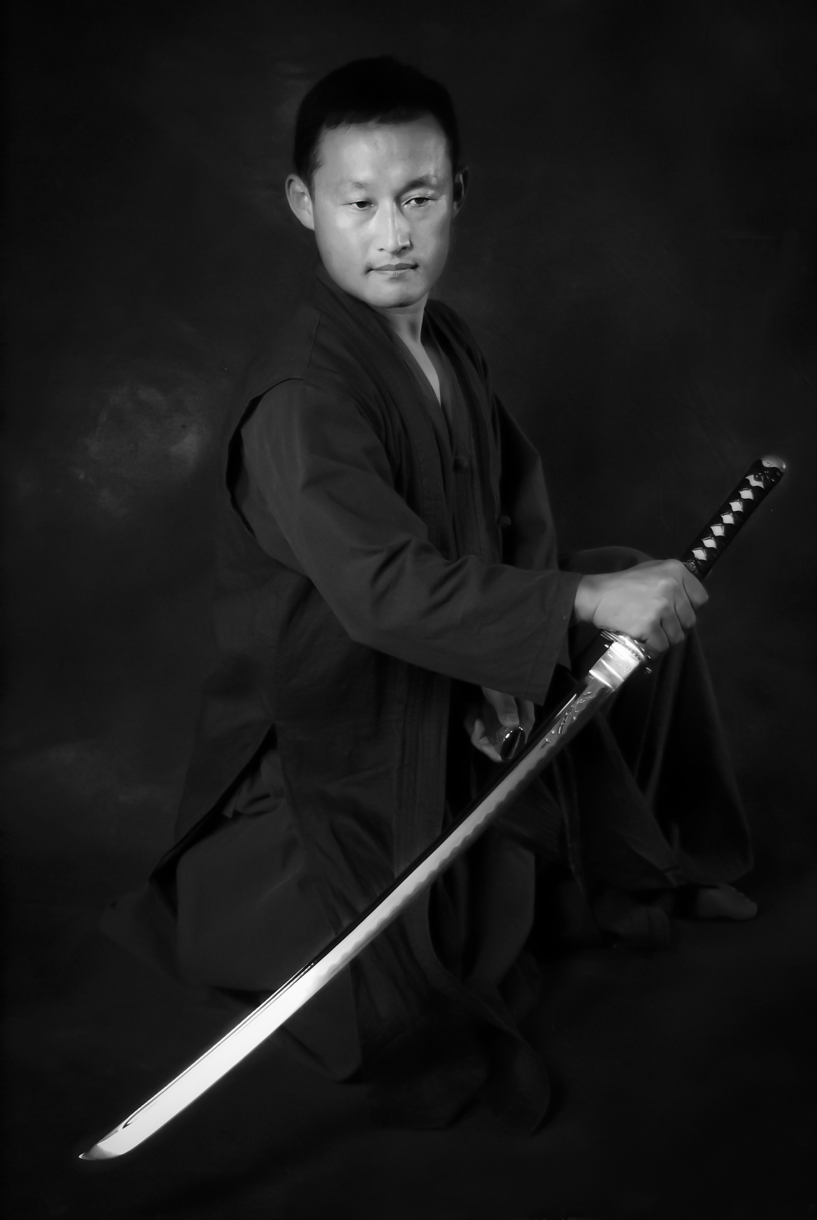 Hyun Kyoo Jang